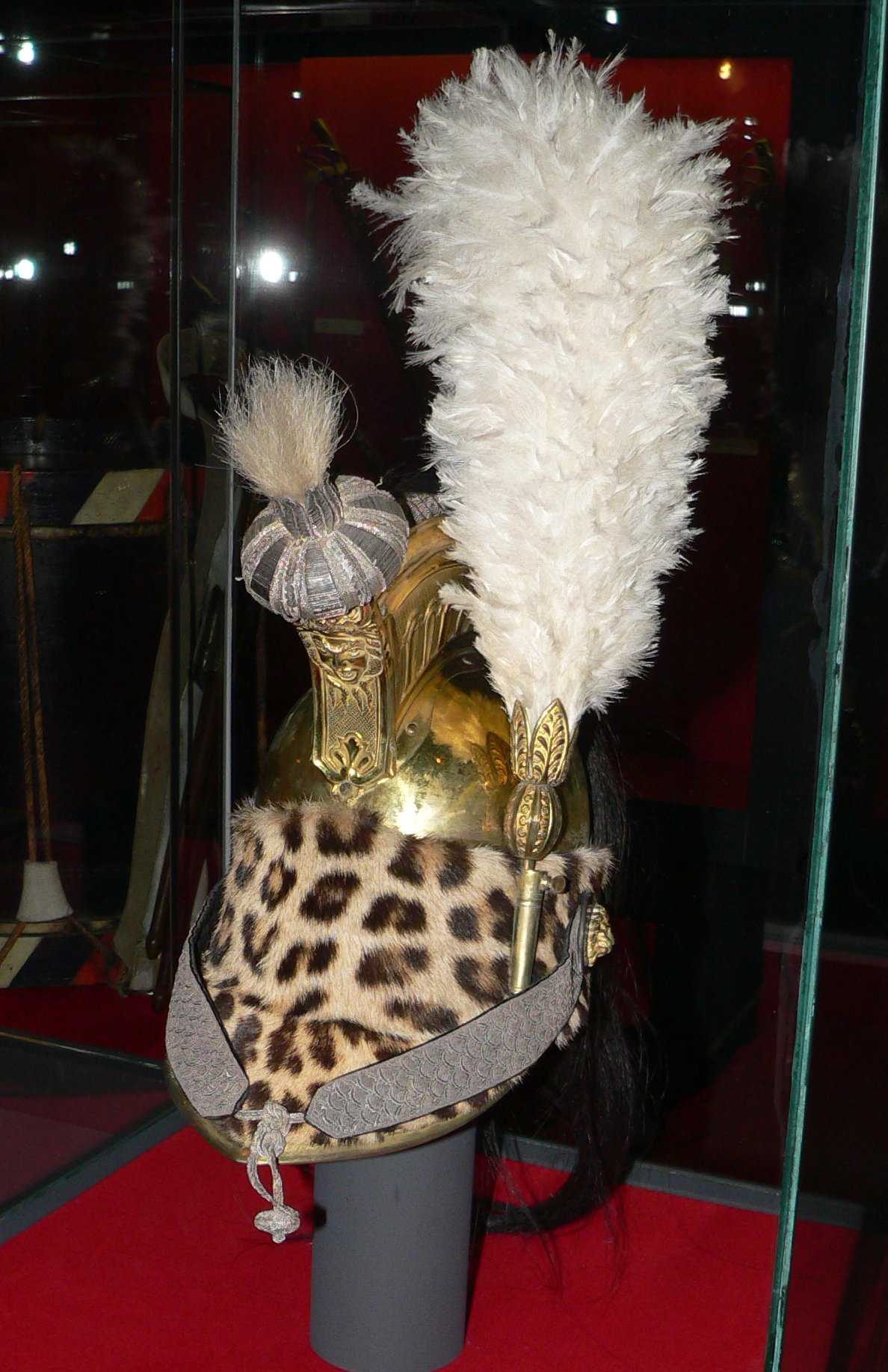 Helmet of a French Dragoon officer. Brass and leopard skin. Art and History museum, Neuchâtel, Switzerland.